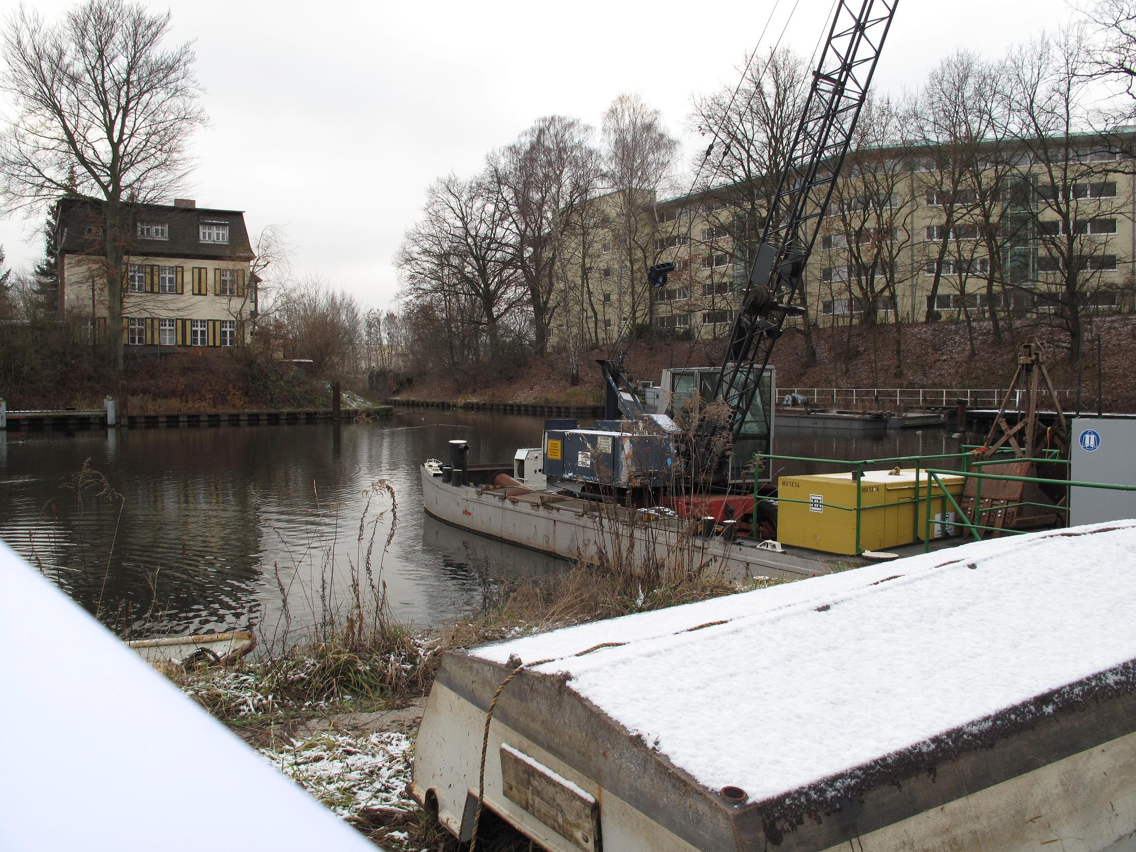 Harbour and the first administrative building, built in 1905/07, at the Teltow-Werft (shipyard). The Teltow-Werft in Berlin-Zehlendorf has emerged in 1924 from the building yard and its harbour, which were opened in 1906 especially for the maintenance of the tow-locomotives and for the supply of the Teltowkanal (canal). The shipyard was closed in 1962. The harbour and most of the buildings, mainly built according to plans by the engineering office Havestadt & Contag, are listed today – including the harbour and this building.